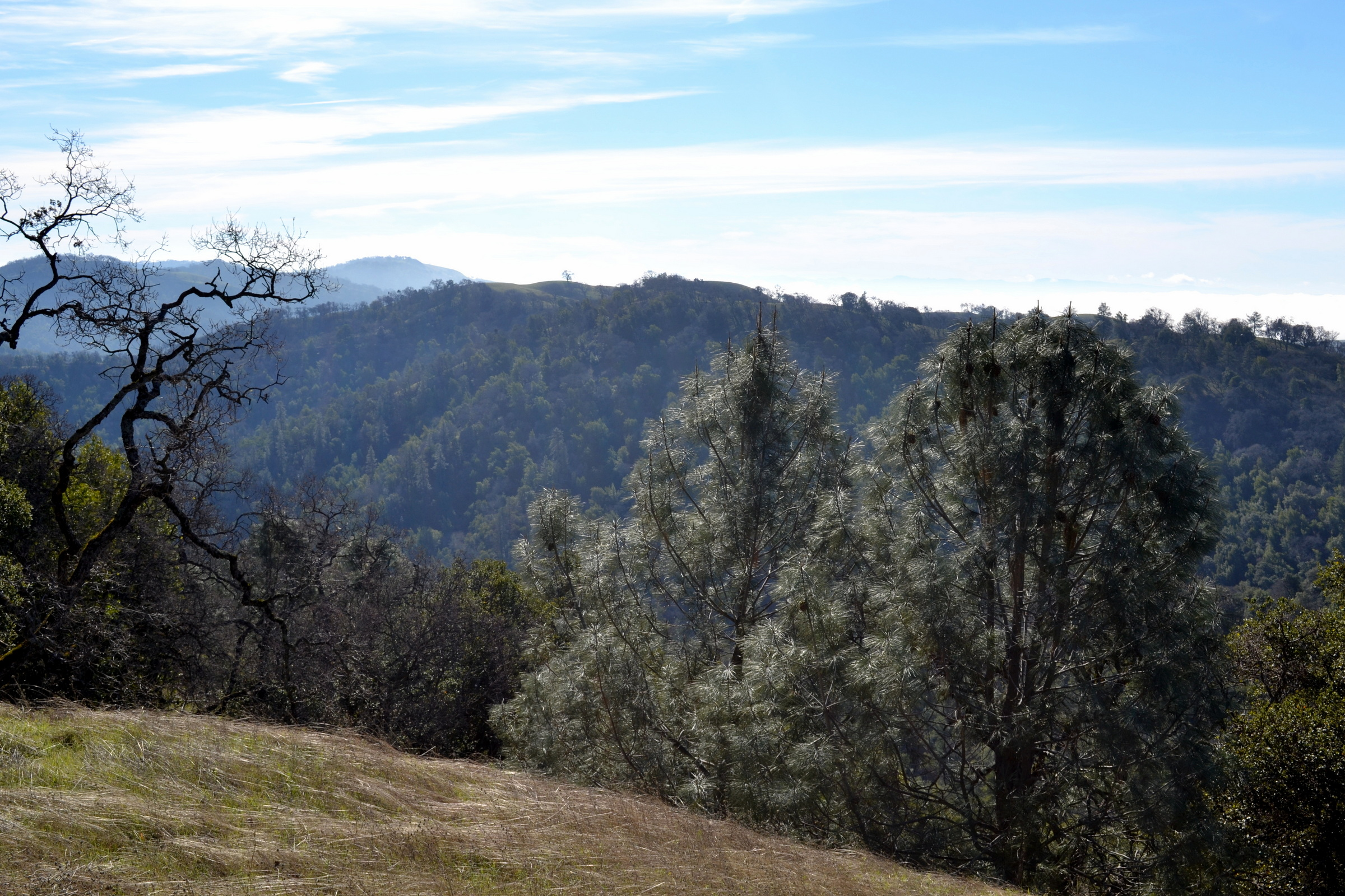 Henry Coe State Park, West side, close to the Morgan Hill entrance